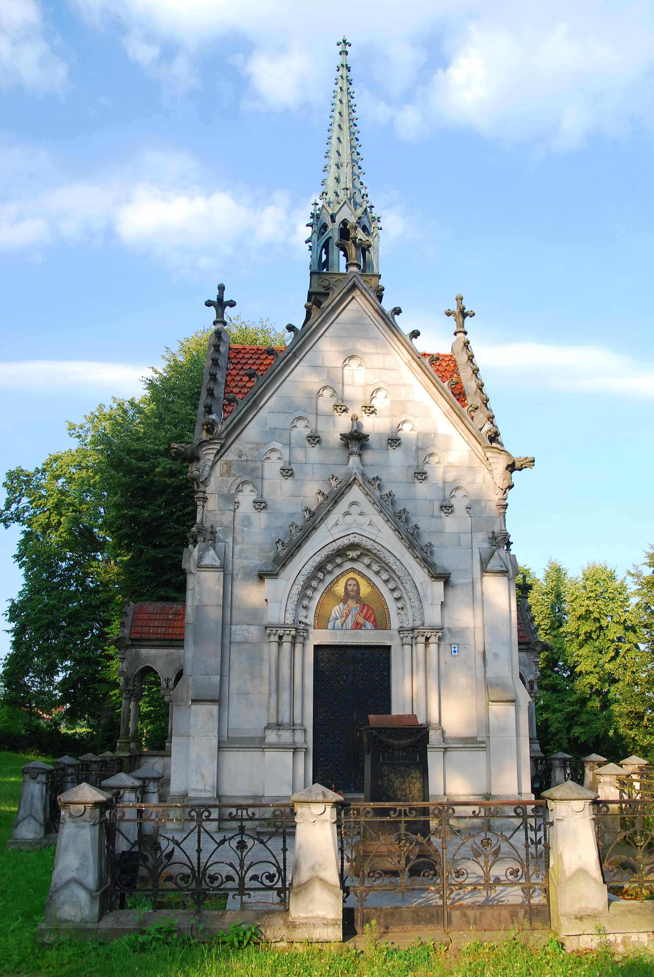 Kaplica Buchholtzów na cmentarzu ewangelickim w Supraślu This photo from Podlaskie Voievodeship was taken during Polish Wikiexpedition 2009 set up by Wikimedia Polska Association. The making of this document was supported by Wikimedia Polska.